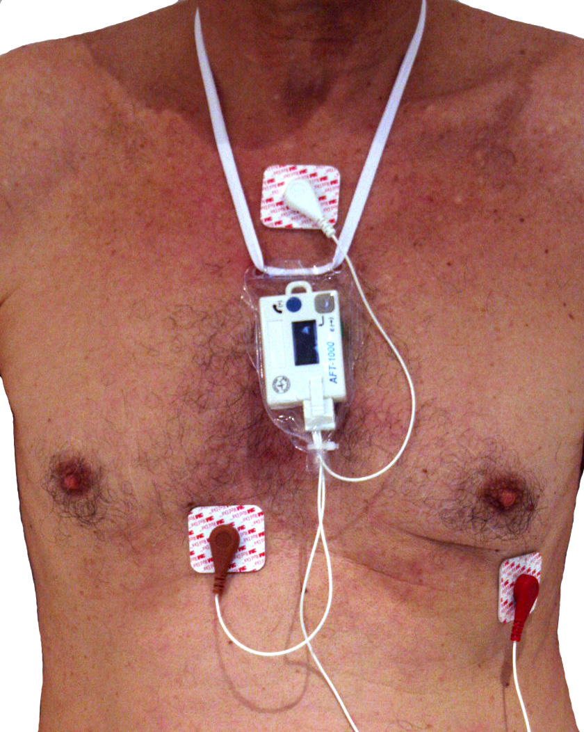 A very small Holter recorder using 3 electrodes to make a non-stop record with 2 channels of ECG.